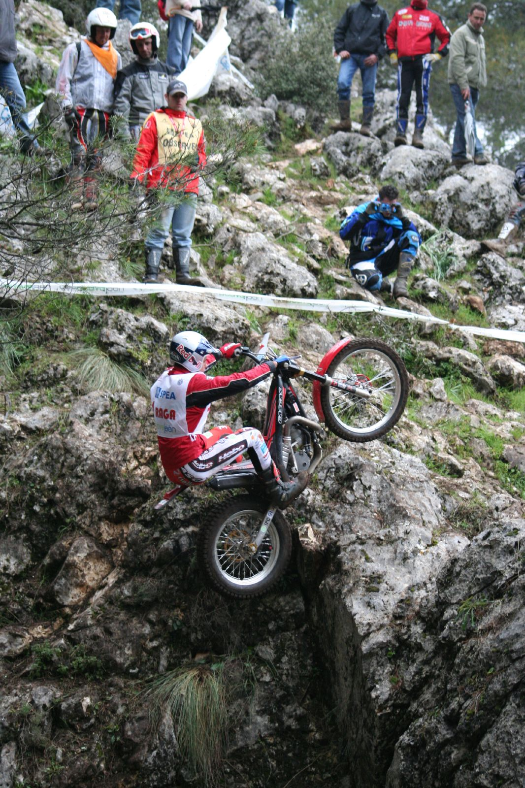 Raga subiendo Adam Raga @ FIM Trial World Championship 2007 R1